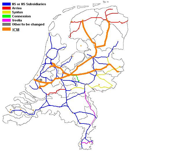 Orange Lines represent where ICM can be seen most commonly on in 2010